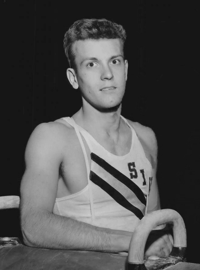 1960 Press Photo Fred Orlofsky, gymnast from Southern Illinois University.